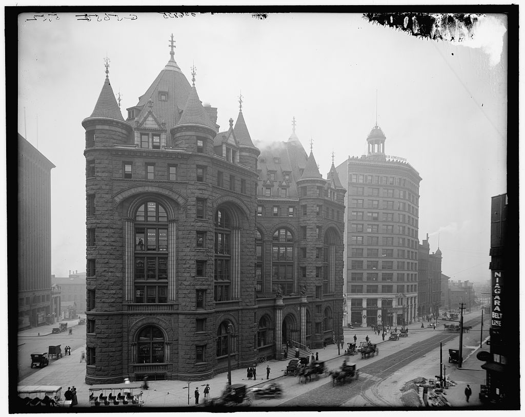 Erie County Savings Bank [foreground] & D.S. Morgan Building [right] — formerly in Buffalo, New York. Both buildings have been destroyed.